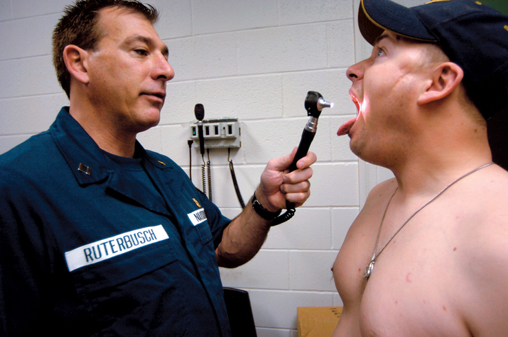 030216-N-6967M-006 Diving Medical Officer LT Victor Ruterbusch gives HM2(DSW) Tim Kerr a final exam before he starts his two weeks in the chamber. Any illness will only get worse inside the chamber. (All Hands, June 2004, pg. 0) Photo by Photographer's Mate 1st Class (AW) Shane T. McCoy. This photo was taken for, but did not appear in the magazine. (RELEASED)